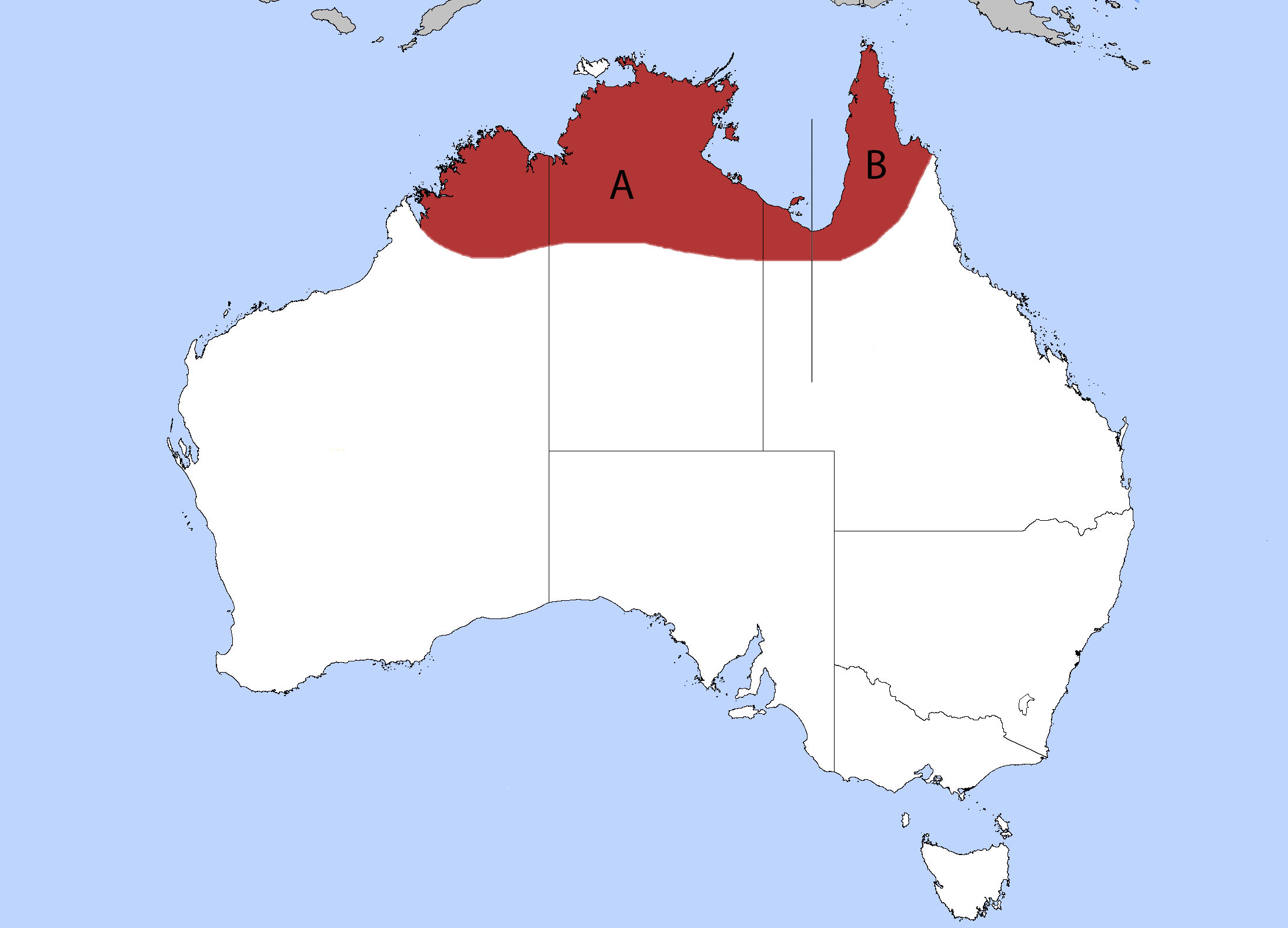 The Range of the Long-tailed Finch A = Race personata B = Race lucotis